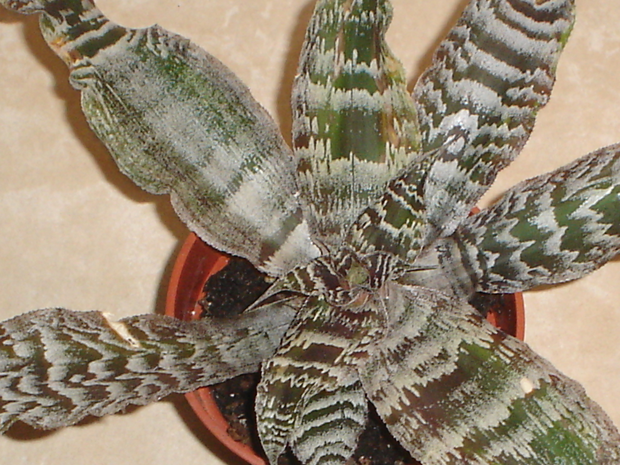 This bromeliad is a Cryptanthus zonatus from my collection.